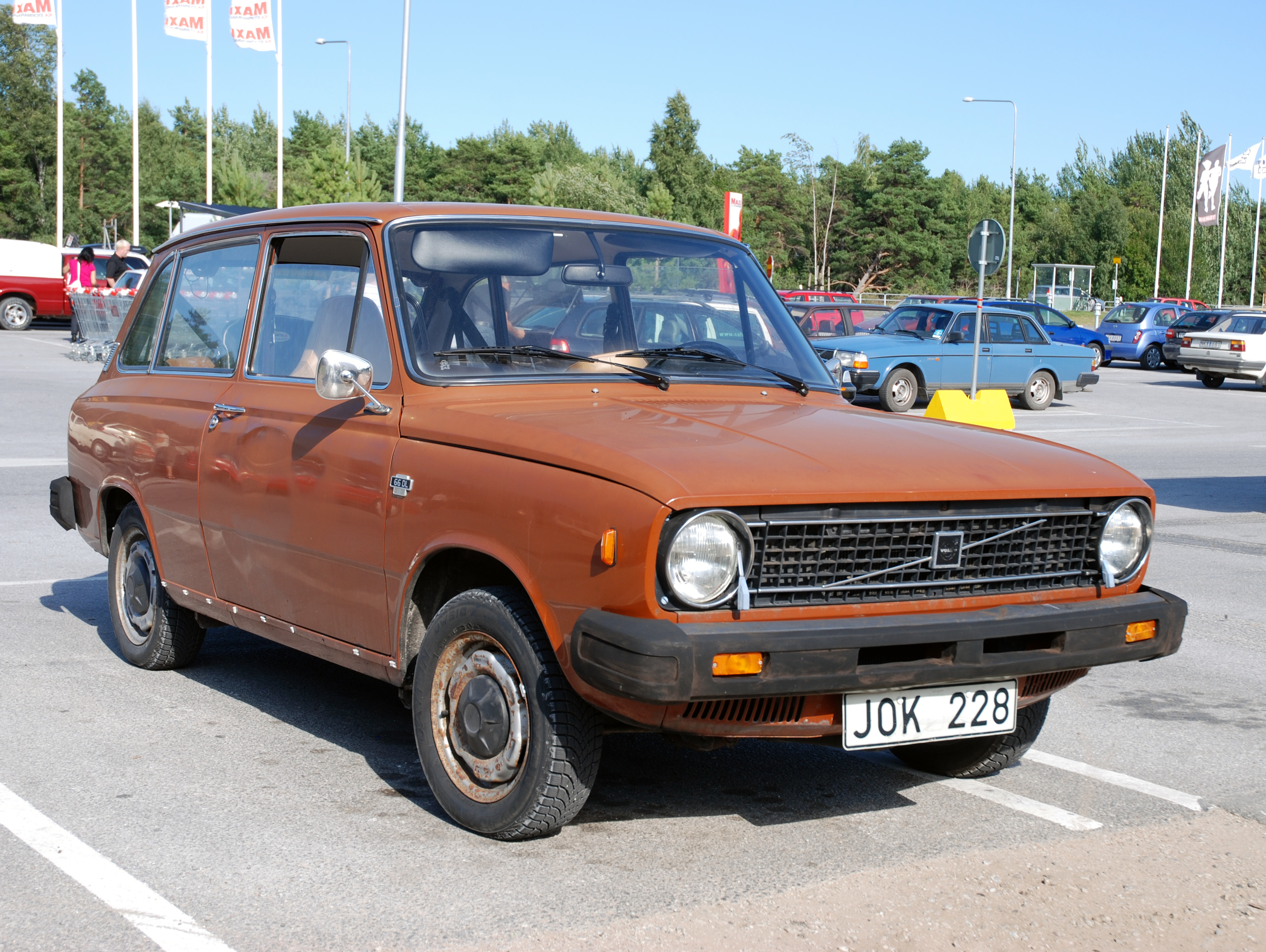 A DAF-Volvo 66 at the parking lot of supermarket ICA Maxi in Visby, Gotland.